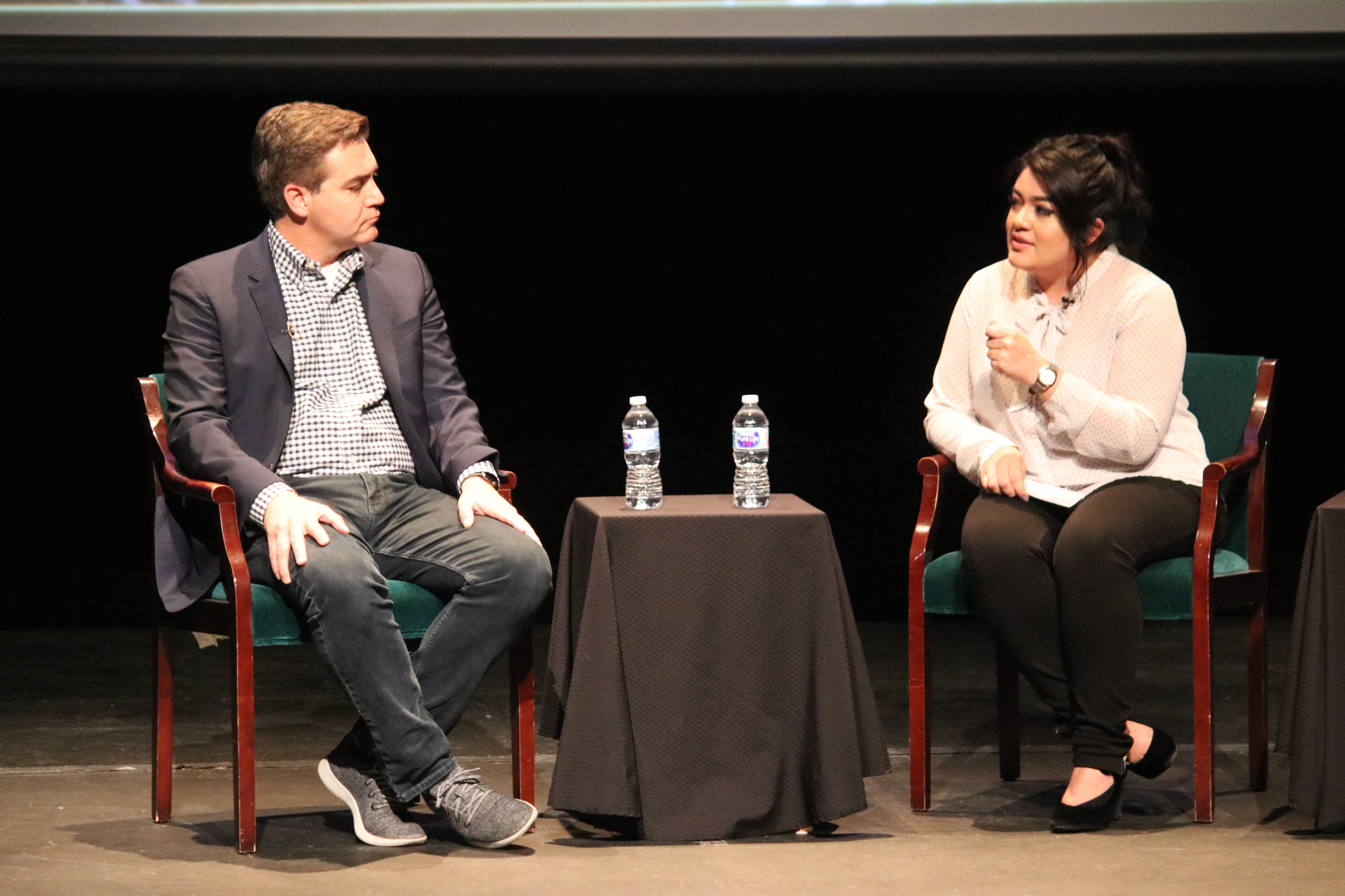 CNN Chief White House Correspondent Jim Acosta is interviewed by San Jose State University students as part of the 2018 William Randolph Hearst Award Presentation.